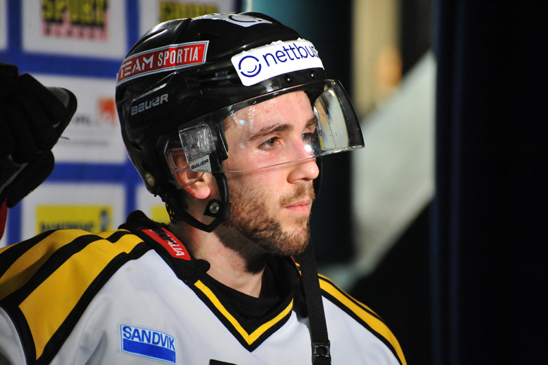 American ice hockey player Ryan Gunderson in the Brynäs IF jersey